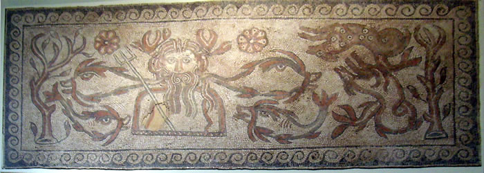 Roman mosaic from the villa rustica at Withington, British Museum